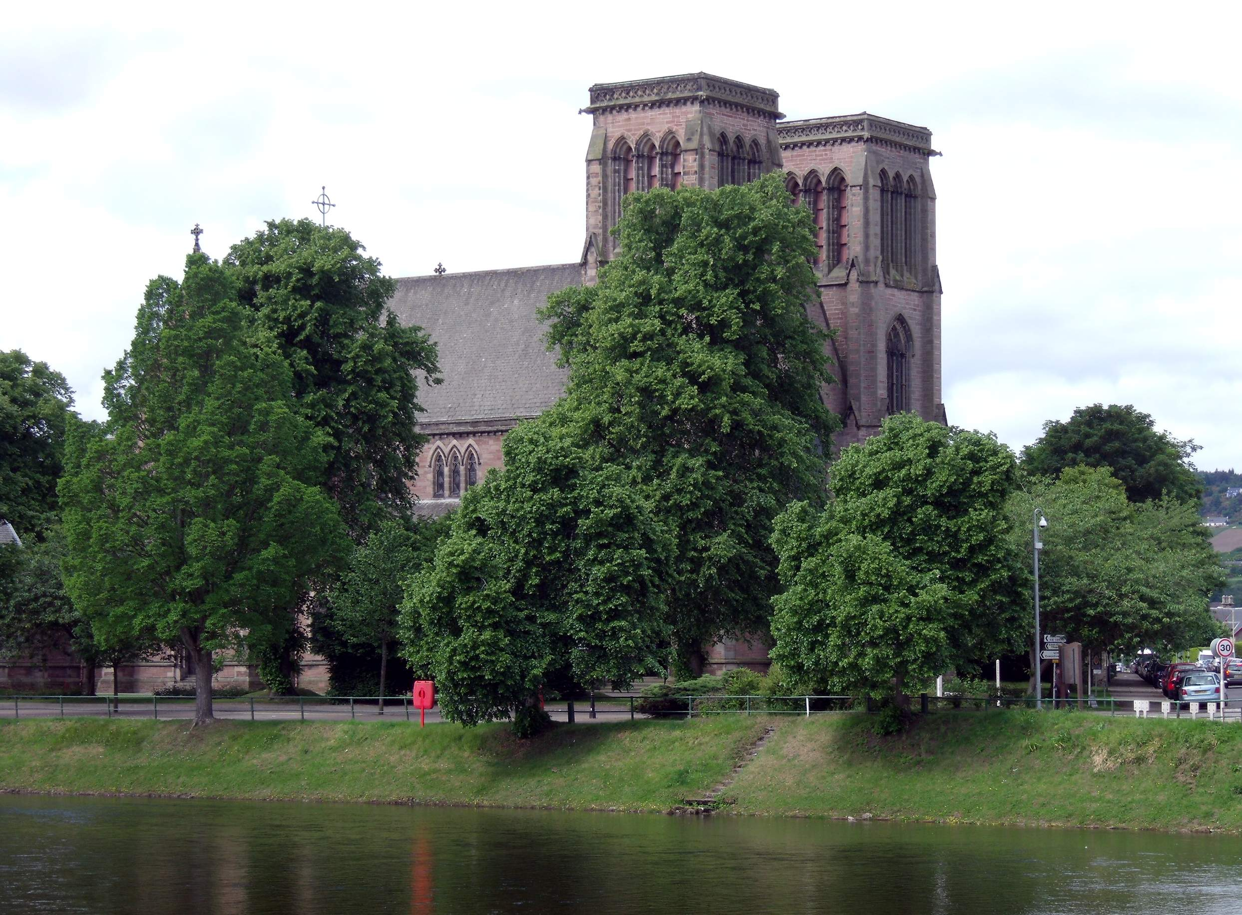 Scottish Episcopal Cathedral, its riverside location and distinctive twin towers make it an Inverness landmark. 'Decorated' style by Alexander Ross, built 1860s, consecrated 1874. Founded by Bishop Eden, whose palace became the Eden Court Theatre nearby. The towers are devoid of spires because the money ran out!